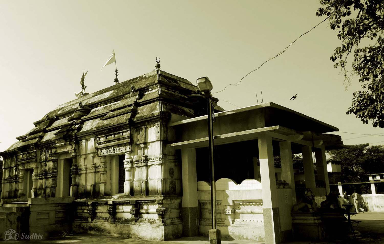 Panchnan Temple